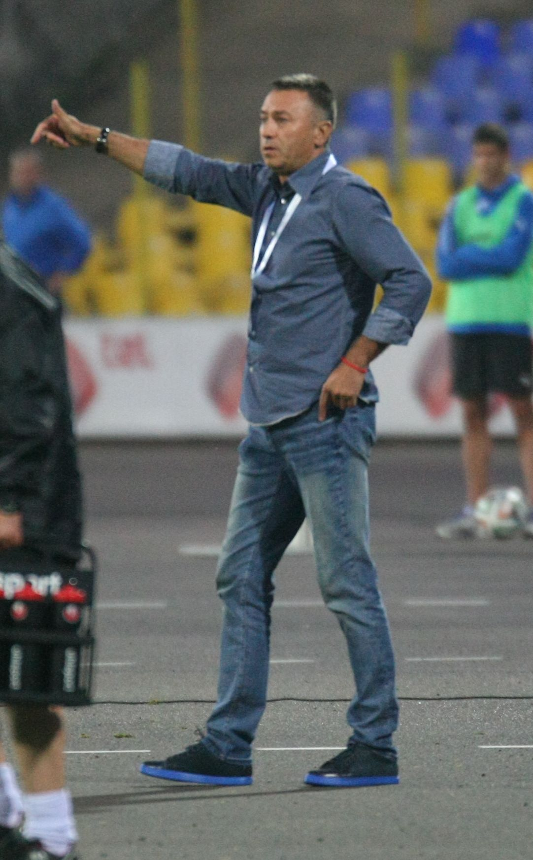 Nedelcho Stoyanov Matushev (Bulgarian: Неделчо Стоянов Матушев) (born 14 February 1962) is a Bulgarian football manager and former footballer and currently manager. He played as a central defender in his career.